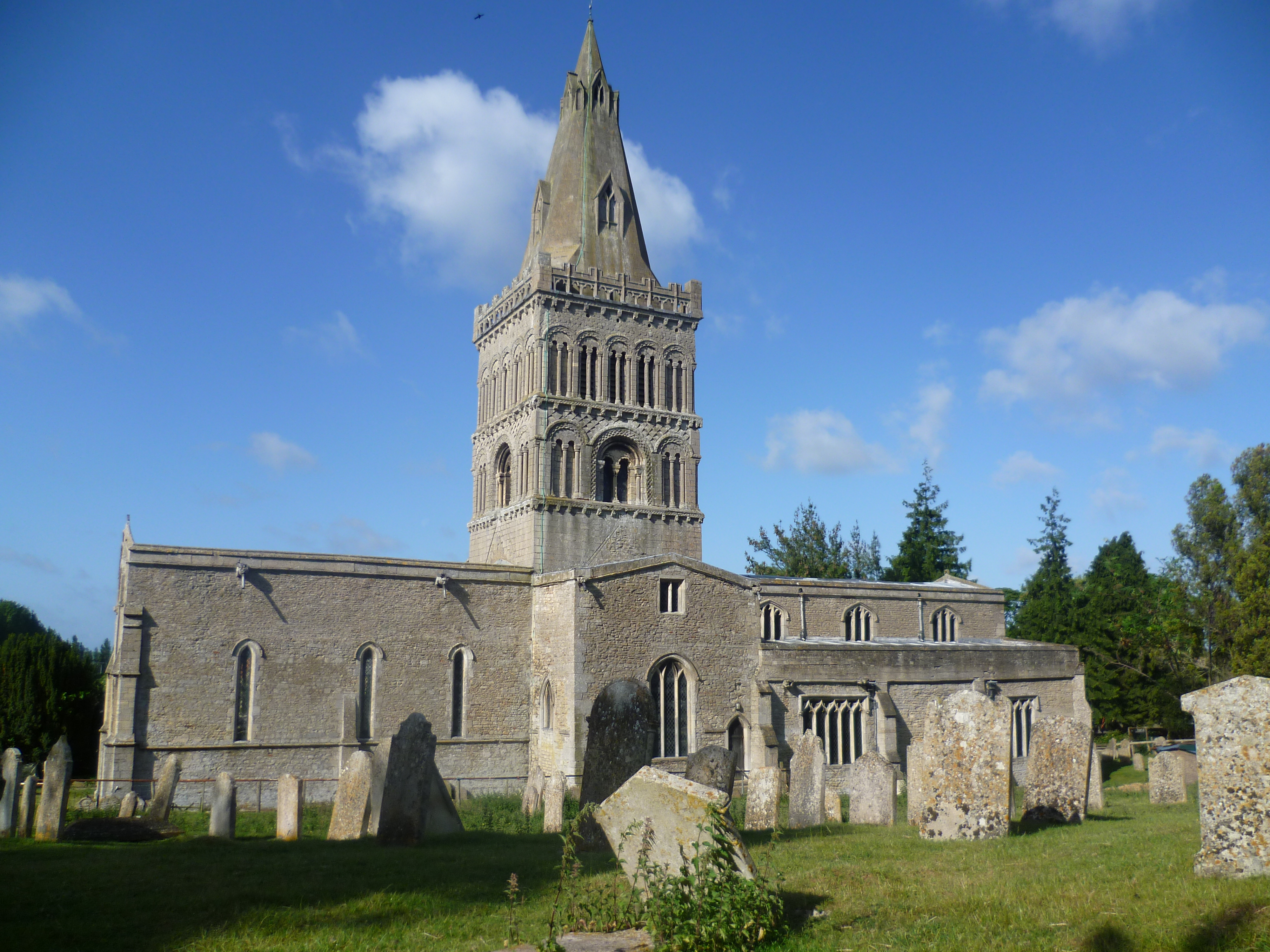 St Kyneburga Church, Castor